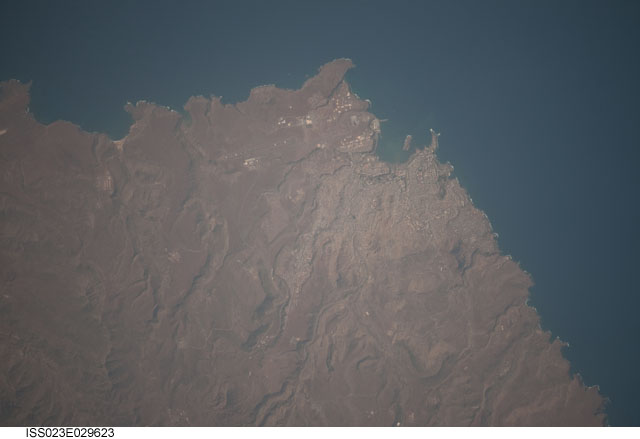 Astronaut Photo of Praia, Cape Verde taken from the International Space Station (ISS) during Expedition 23 on April 20, 2010.